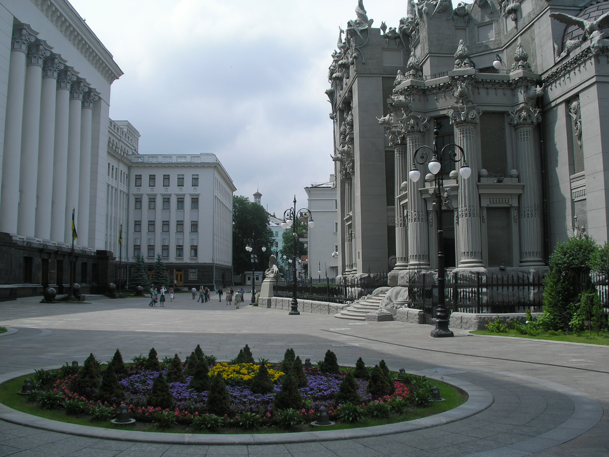 A square in front of the House with Chimaeras, one of the official residences of the President of Ukraine in Kiev, the capital of Ukraine.